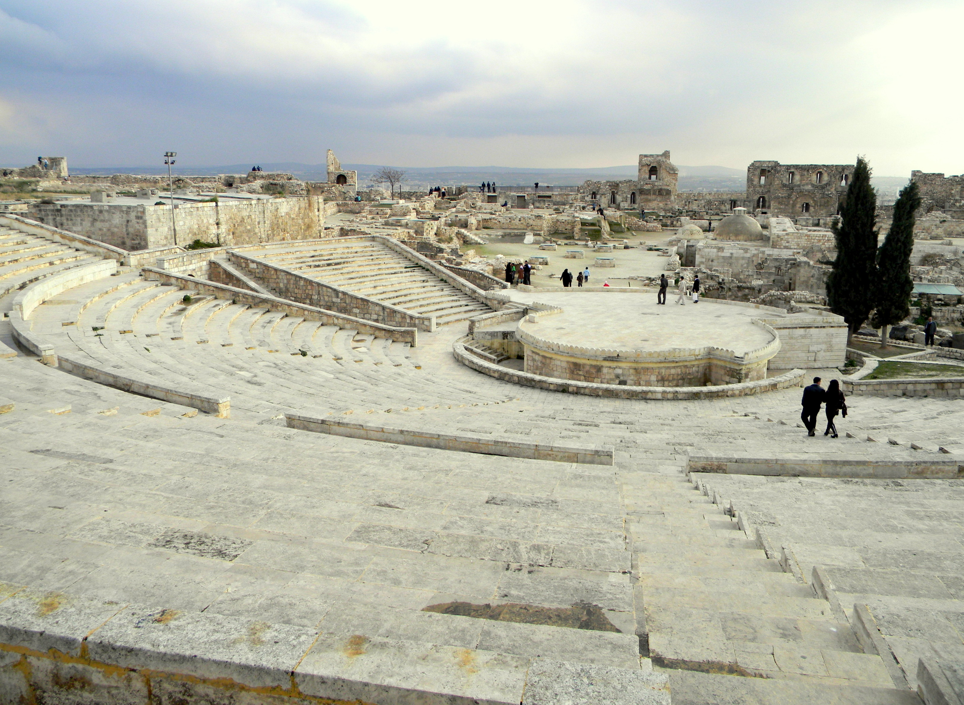 Aleppo citadel amphitheatre